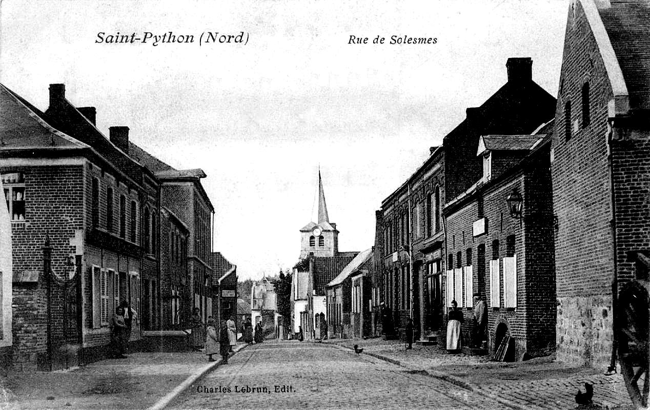 Rue de Solesmes seen 2/3 looking towards the church. The locals are obviously posing for the photo. The 1st house on the right is the current N ° 37 (as of 2019). Note in the foreground on the right a "estaminet" with a "blocure" but this house is no longer recognizable at the moment.